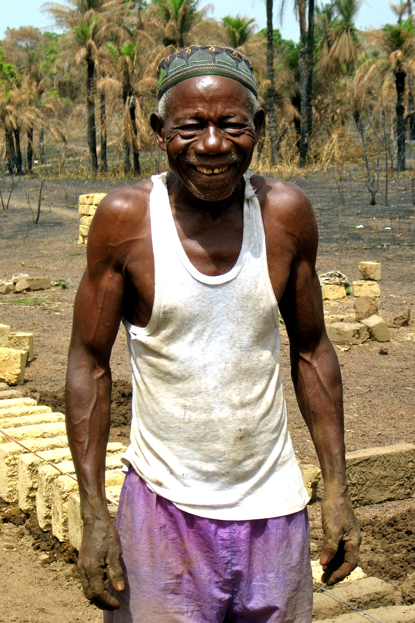 Landogo stonemason and carpenter, Bombali District, Northern Province, Republic of Sierra Leone, West Africa. A Loko stonemason and carpenter, 2011. ਪੰਜਾਬੀ: Landogo stonemason ਅਤੇ ਤਰਖਾਣ, Bombali ਜ਼ਿਲ੍ਹਾ, ਉੱਤਰੀ ਸੂਬੇ, Republic of Sierra Leone, ਪੱਛਮੀ ਅਫ਼ਰੀਕਾ.